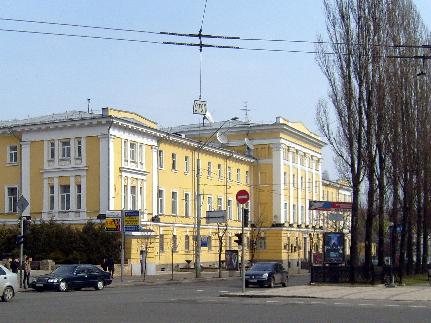 Kiev University, Yellow Building